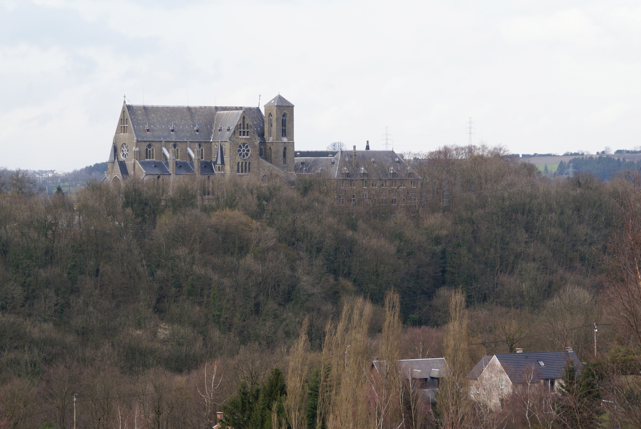 Chèvremont basilica, as seen from the Chaudfontaine (Belgium) fort.